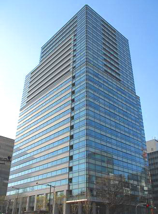 Kitanomaru Square, Tokyo Japan